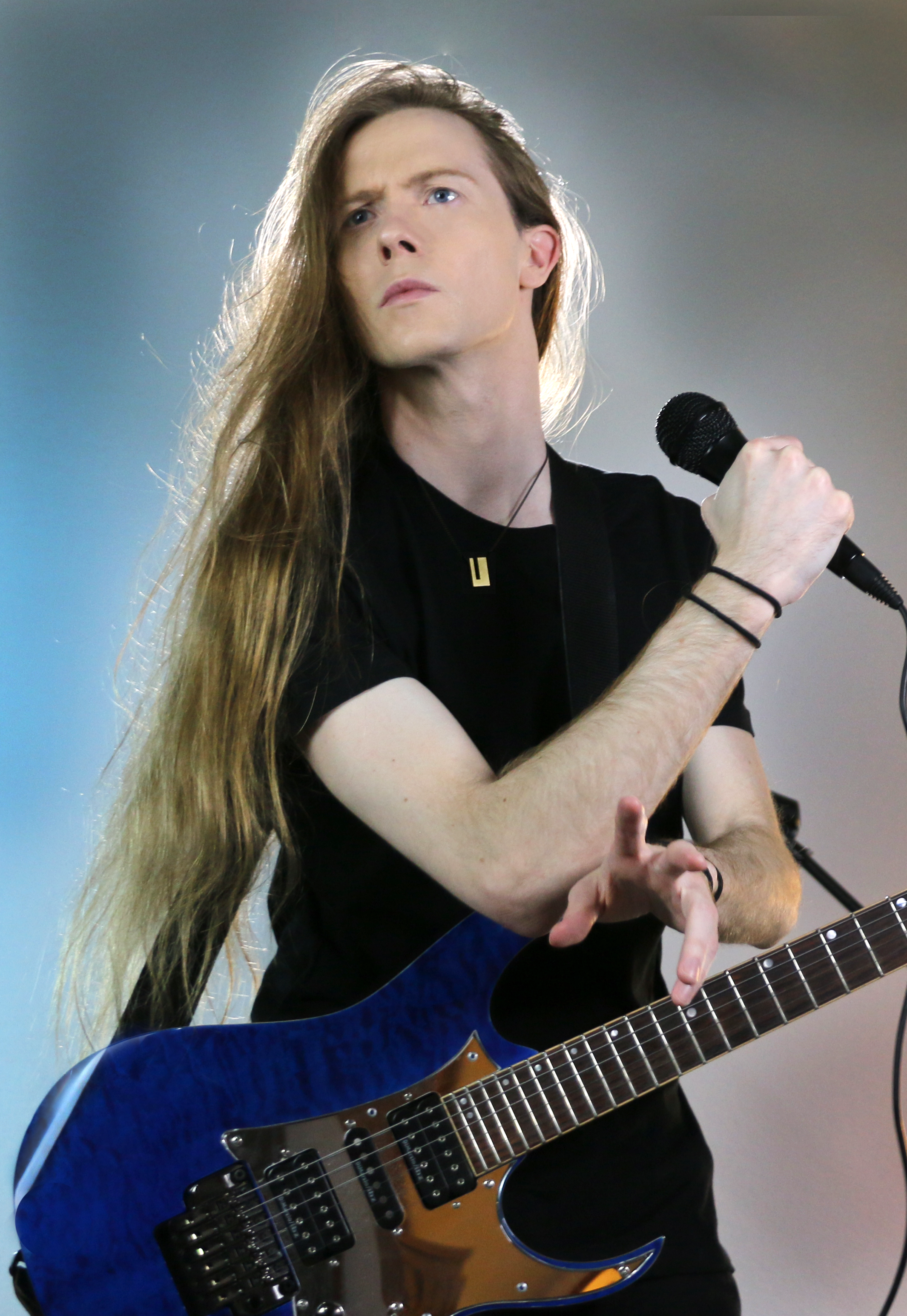 Jered Threatin performing on tour in 2015.